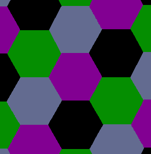 Lozenge camouflage using a four-color hexagon pattern as reported in Popular Mechanics (1919) and Aviation and Aeronautical Engineering (1918).